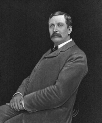 Portrait of George W. Caldwell from Biographical Record of Bartholomew County Indiana, 1904, page 168